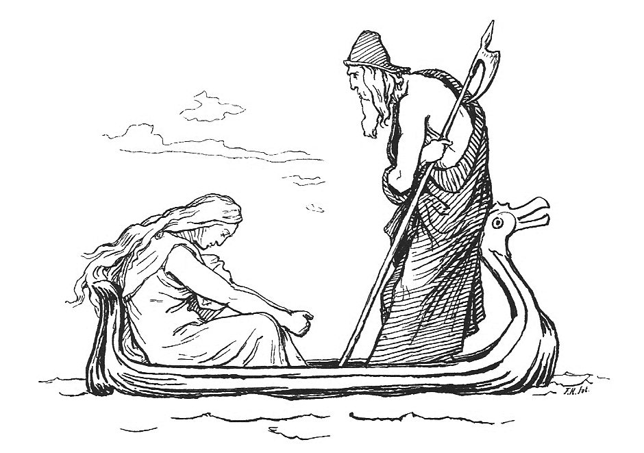 Two figures, a female and a male, sit and mourn silently in a boat. The image features no caption or text of any kind and appears on a page following the poem Völuspá hin skamma. Therefore, the image very likely depicts the goddess Frigg and her husband Odin mourning the death of their son Baldr, though whether this has occurred or not yet here is uncertain.